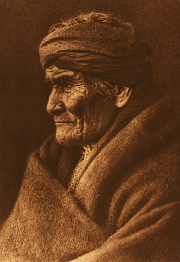 Geronimo - Apache (1905) Description by Edward S. Curtis: This portrait of the historical old Apache was made in March, 1905. According to Geronimo's calculation he was at the time seventy-six years of age, thus making the year of his birth 1829. The picture was taken at Carlisle, Pennsylvania, the day before the inauguration of President Roosevelt, Geronimo being one of the warriors who took part in the inaugural parade at Washington. He appreciated the honor of being one of those chosen for this occasion, and the catching of his features while the old warrior was in a retrospective mood was most fortunate. Northwestern University Library, Edward S. Curtis's 'The North American Indian': the Photographic Images, 2001.